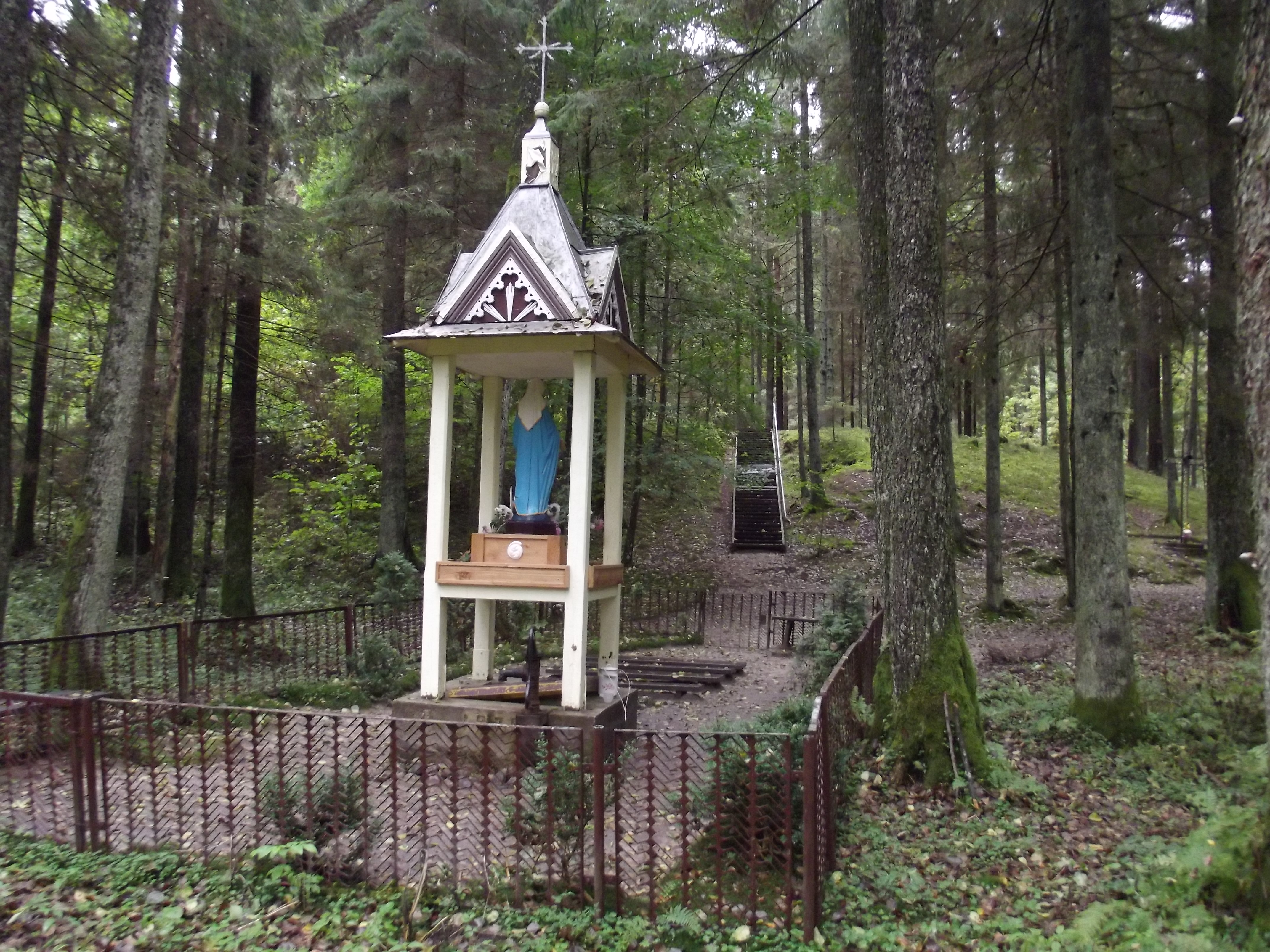 By Višakio Rūda Spring, Kazlų Rūda municipality, Lithuania